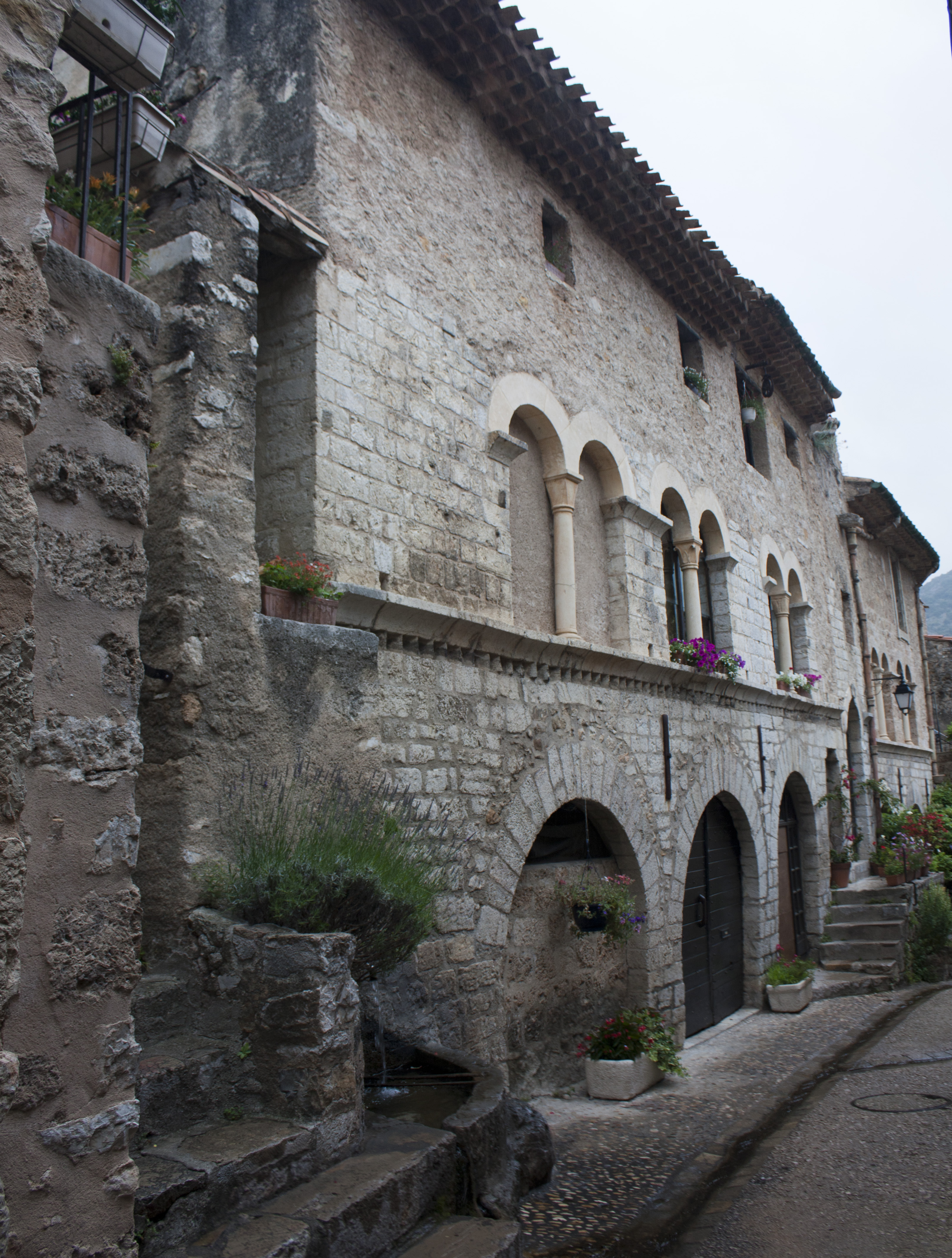 House sheltering the former chapel of the Penitents.